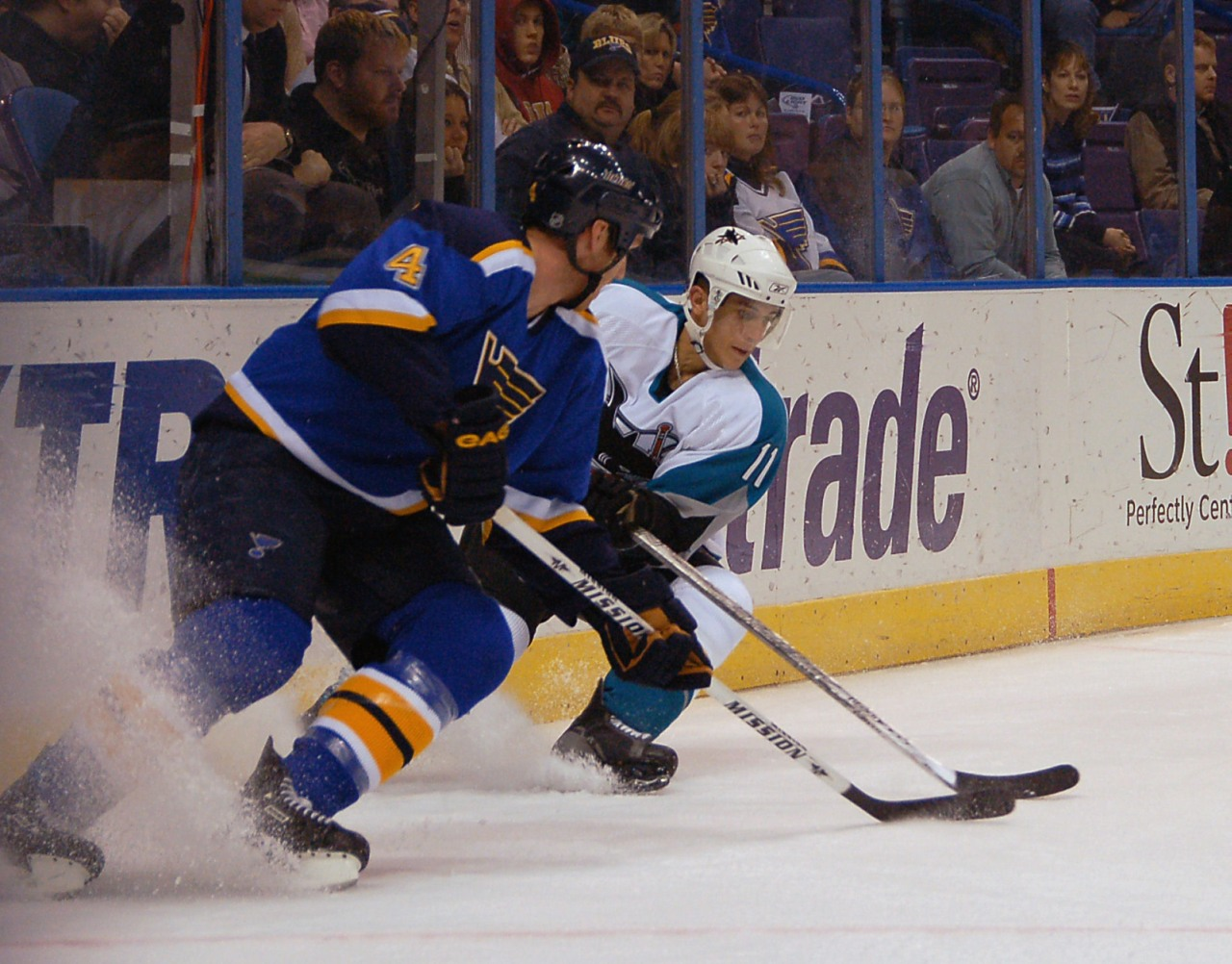 Eric Brewer #4 vs. Marcel Goc #11,St. Louis Blues vs. San Jose Sharks, November 28, 2006